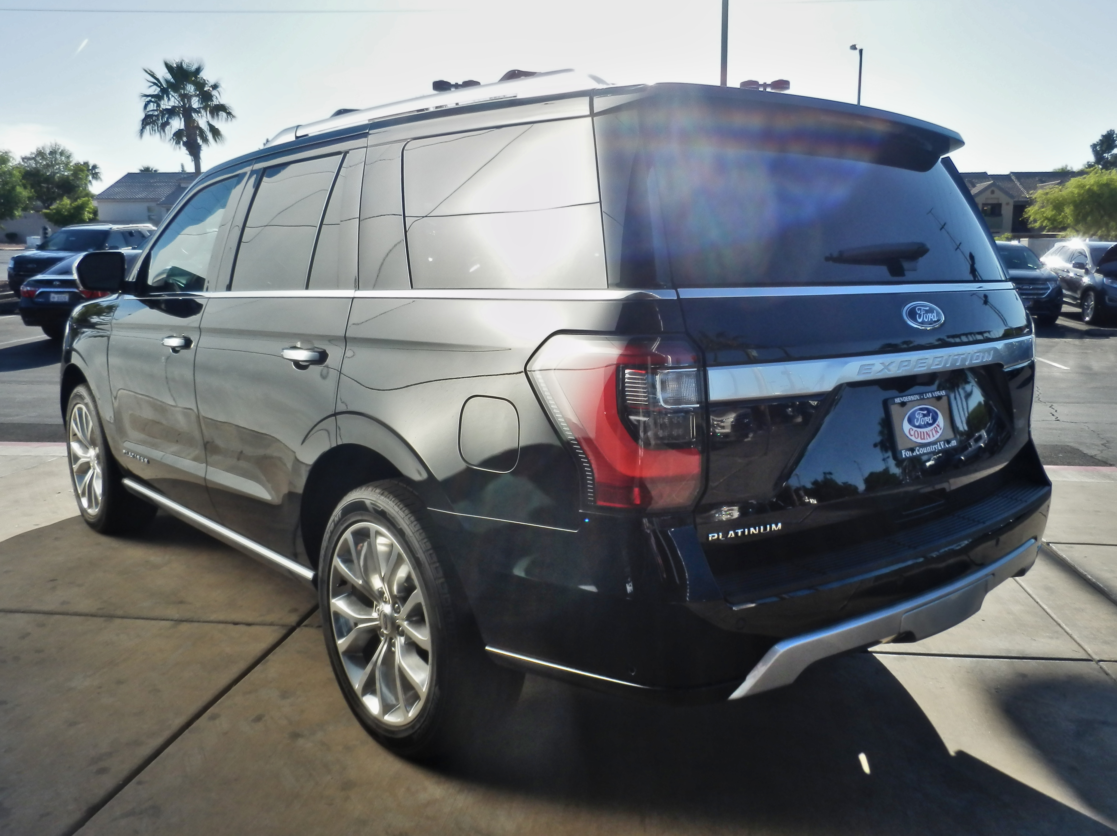 Ford Expedition in Las Vegas